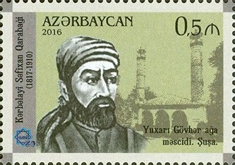 The 80th Anniversary of the Union of Architects of Azerbaijan. N 1249 - 50 qapik. There are pictured Karbalayi Safikhan Qarabaghi and mosque “Upper Gheferagha” in Shusha on the stamps.